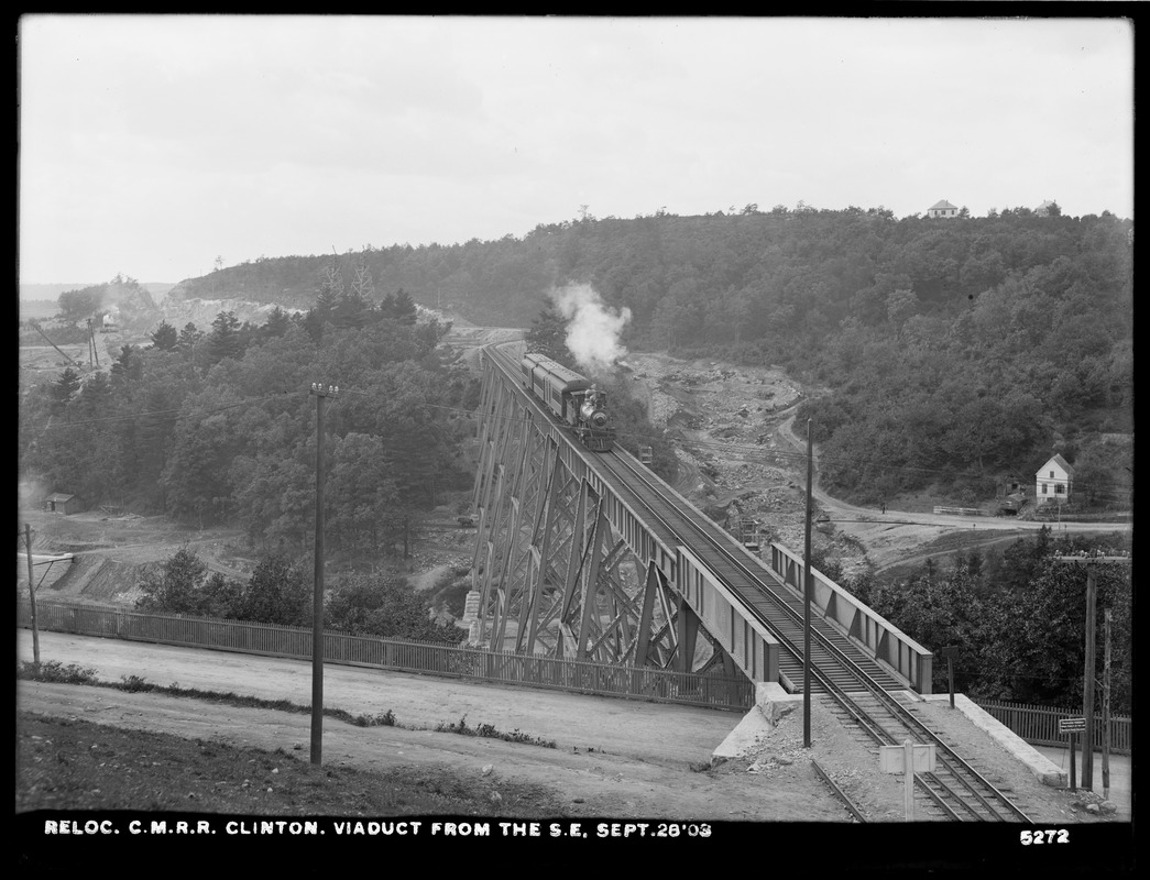 Central Massachusetts Railroad Relocation, viaduct from the southeast, Clinton, MA, Sep. 28, 1903